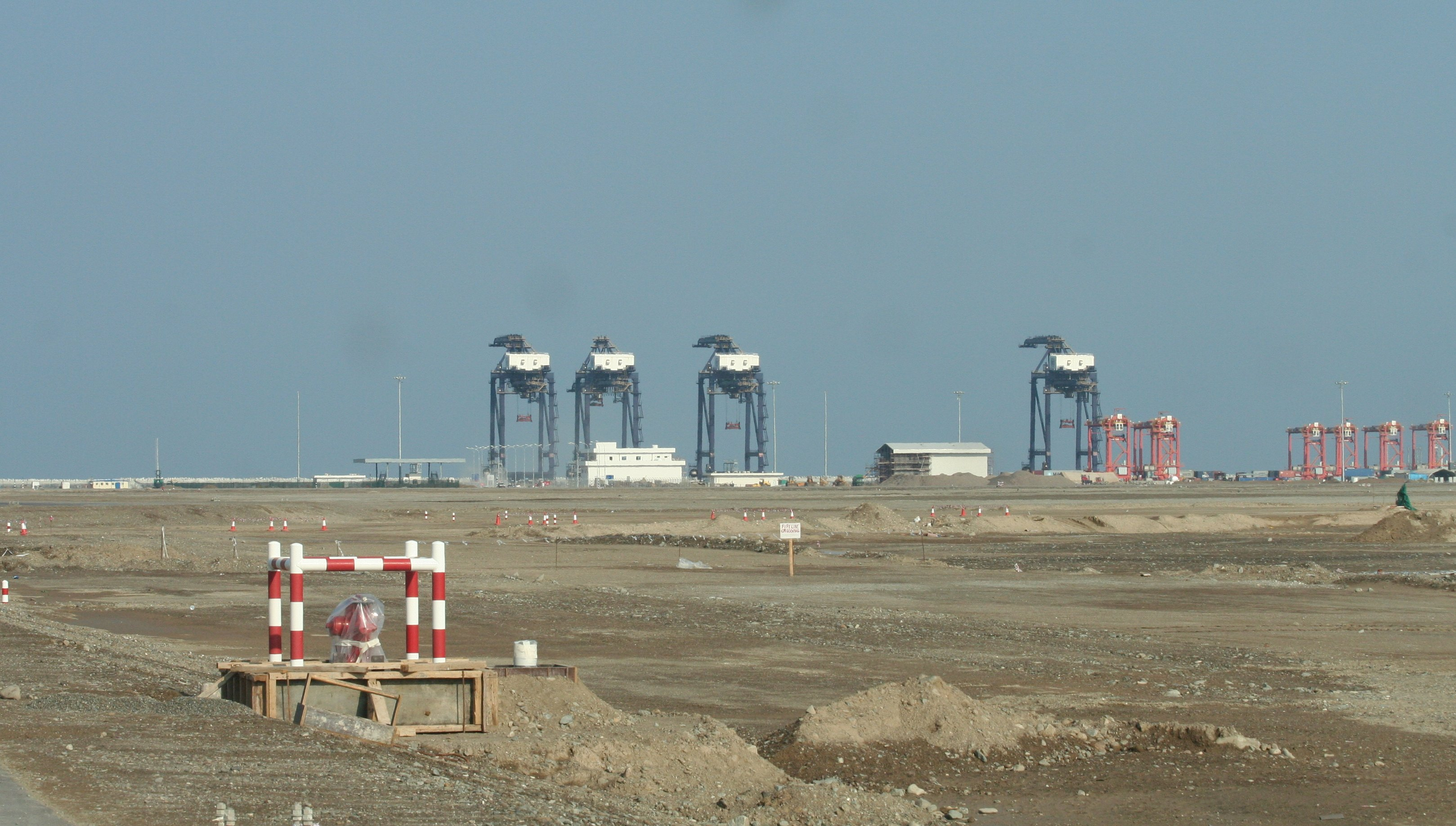 Container cranes at Sohar, Oman